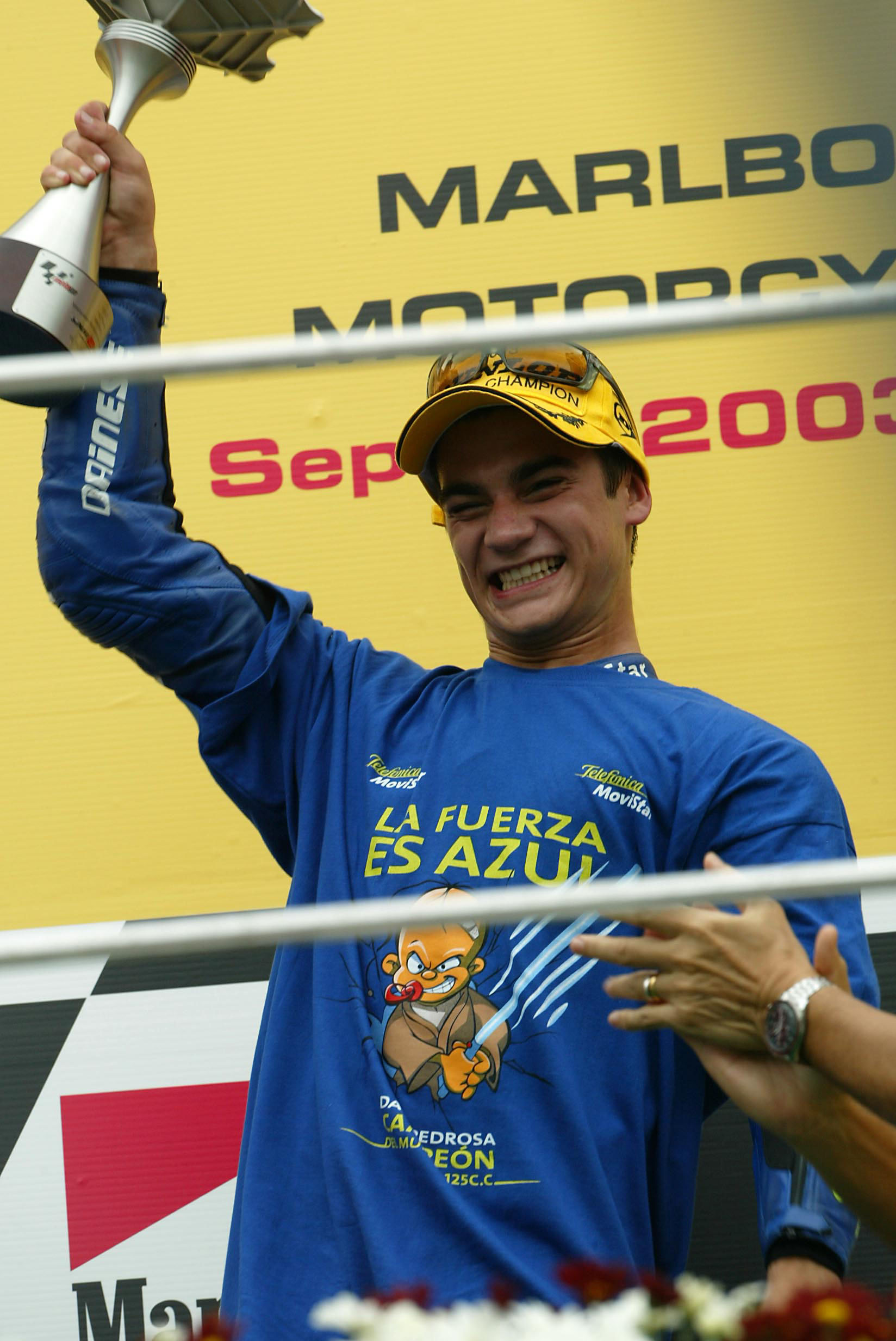 Dani Pedrosa, lifting his trophy and celebrating on the podium after winning his first ever world championship by winning the 2003 Malaysian Grand Prix.